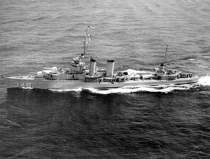 The U.S. Navy destroyer USS Farragut (DD-348) underway at sea on 14 September 1936.